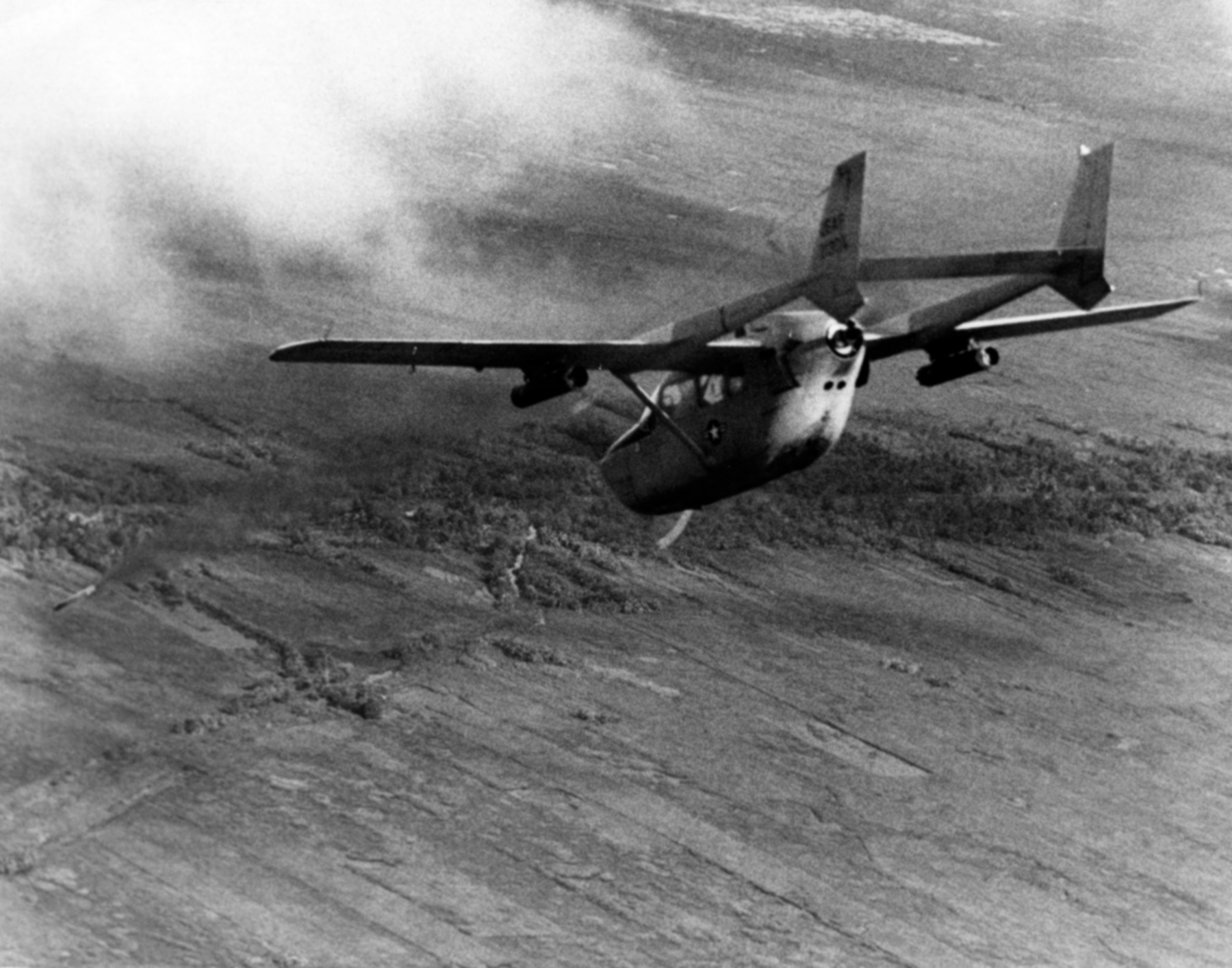 A U.S. Air Force Cessna O-2A-CE Super Skymaster (s/n 67-21304) fires a smoke rocket to mark an enemy stronghold for strike aircraft in Vietnam. The rocket is visible in the lower left center of the photo.